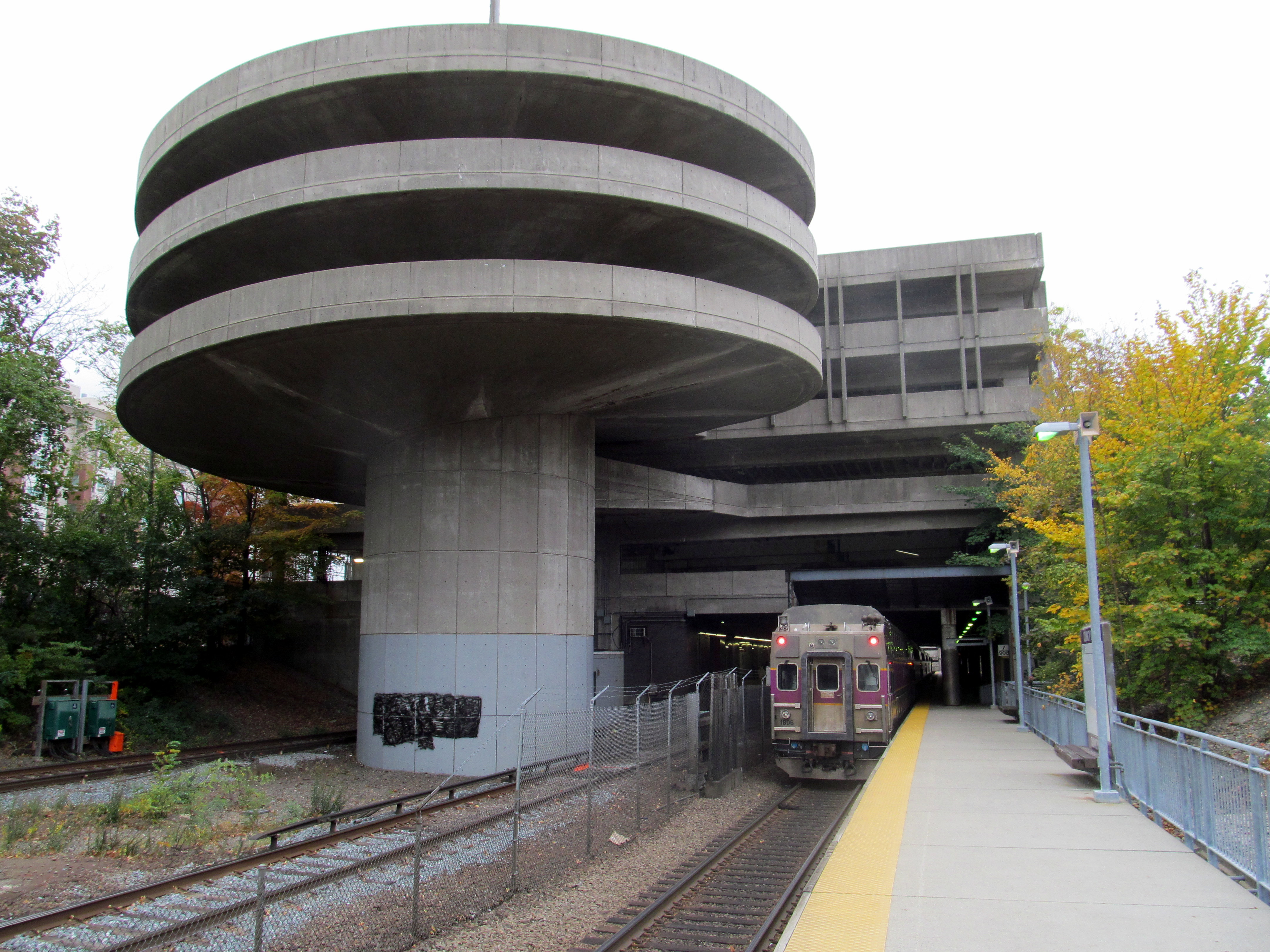 An outbound commuter rail train at Quincy Center in October 2015 with the garage ramp at left